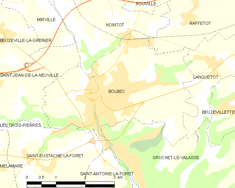 Map of French municipality Bolbec